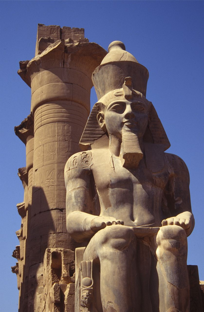 Statue of Ramses II at Luxor Temple, Egypt